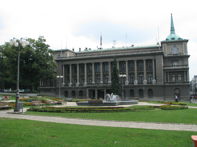 The Presidential Office of Serbia